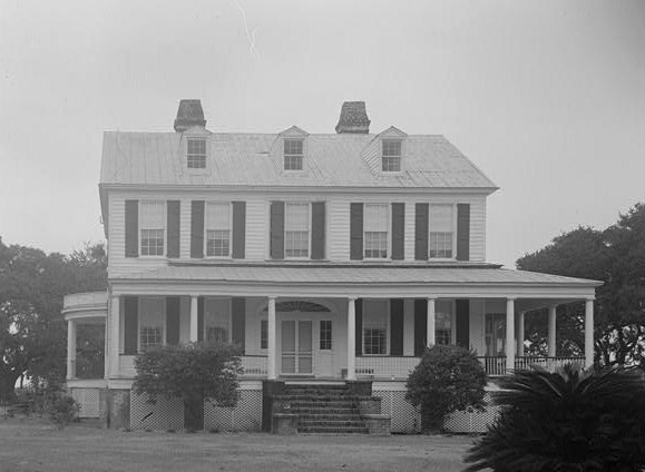 Oak Island (House), County Road 768 vicinity, Edisto Island (Charleston County, South Carolina) (cropped)